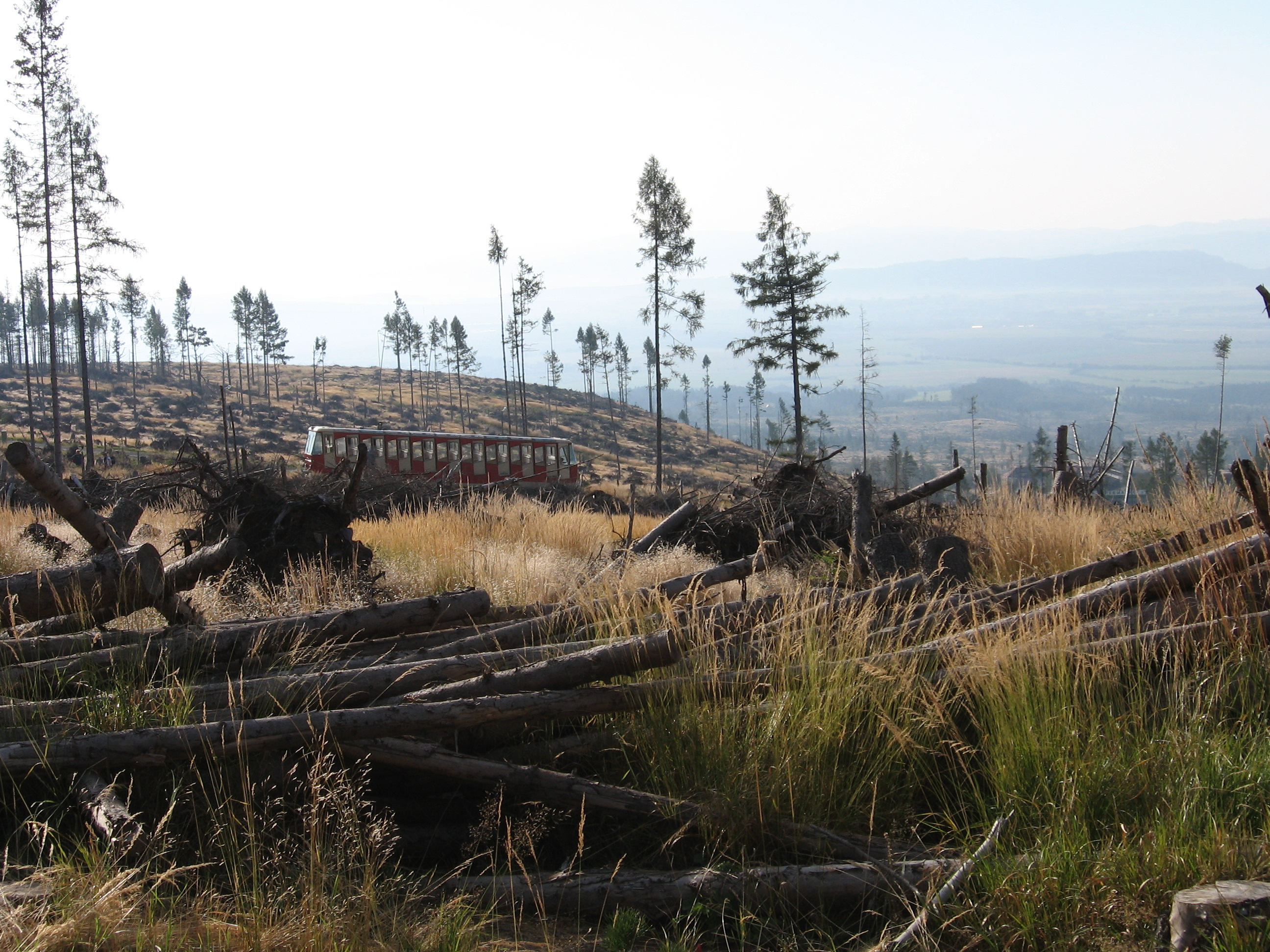 Tatra's electrical Railways -- This is most probably the cable car from Stary Smokovec, from sk: "Lanová dráha Starý Smokovec - Hrebienok" [1]